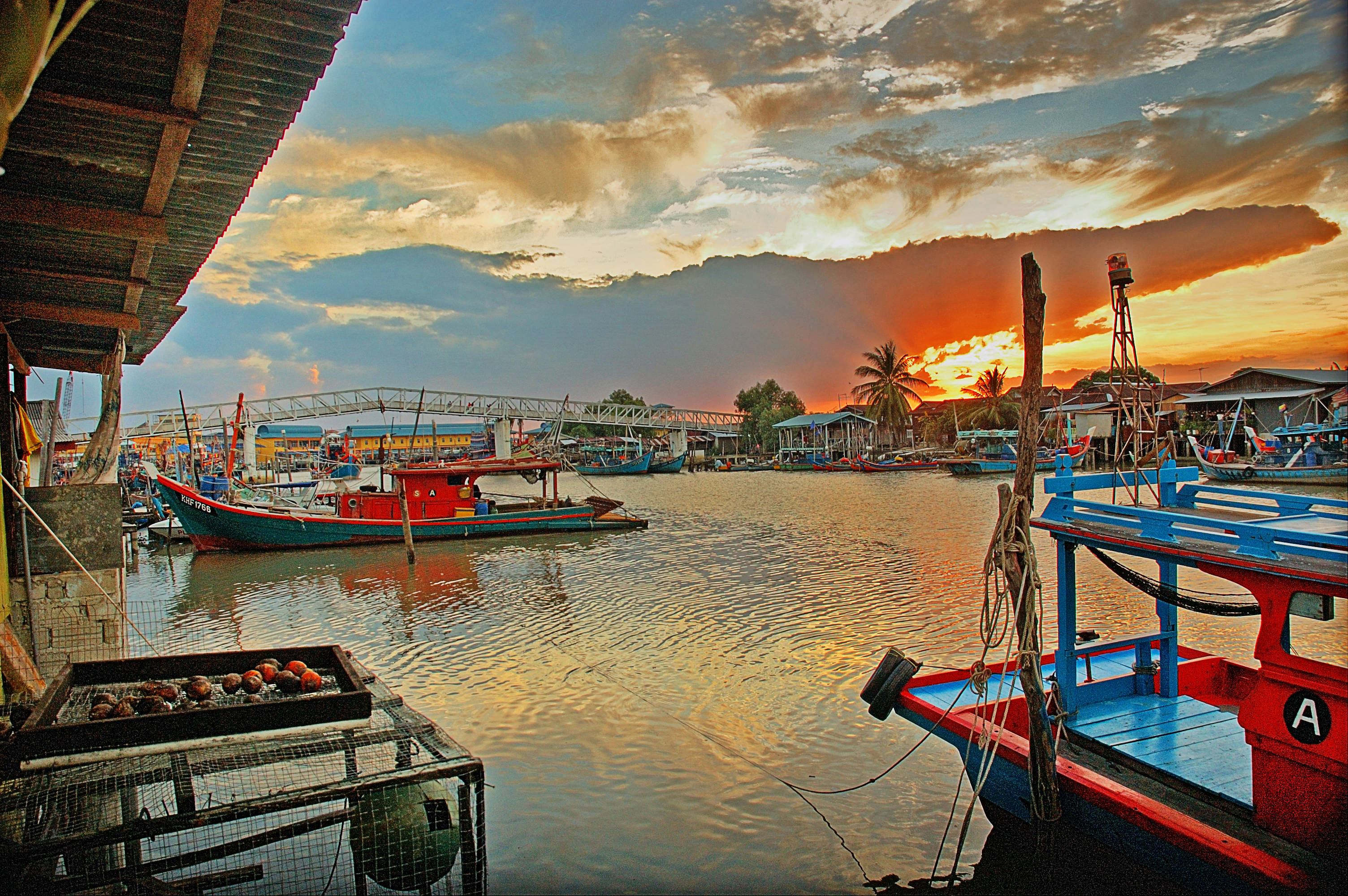 The port of Kuala Perlis, Northwestern Malaysia